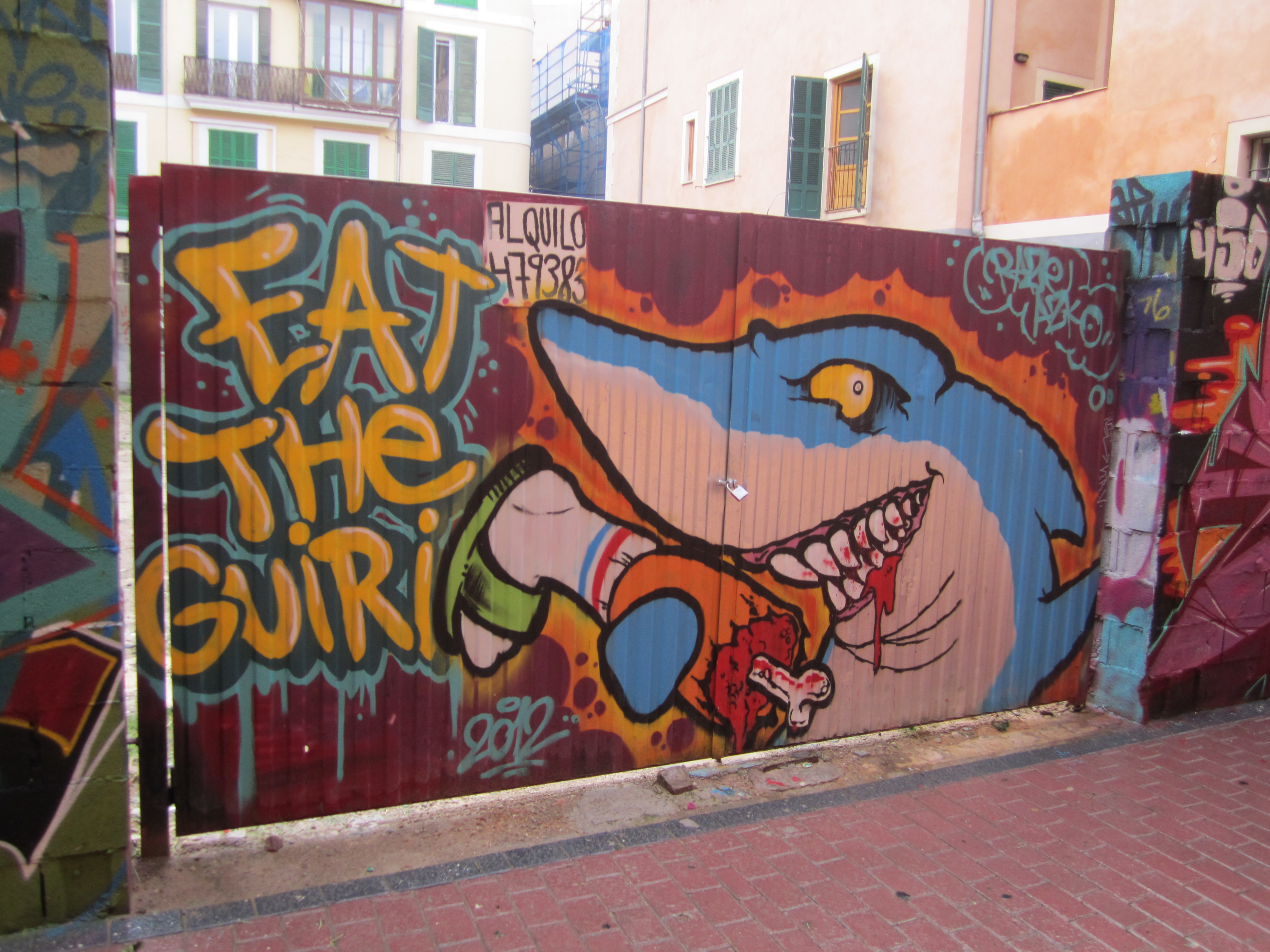 A Graffiti in Palma, Majorca stating "Eat the Guiri".